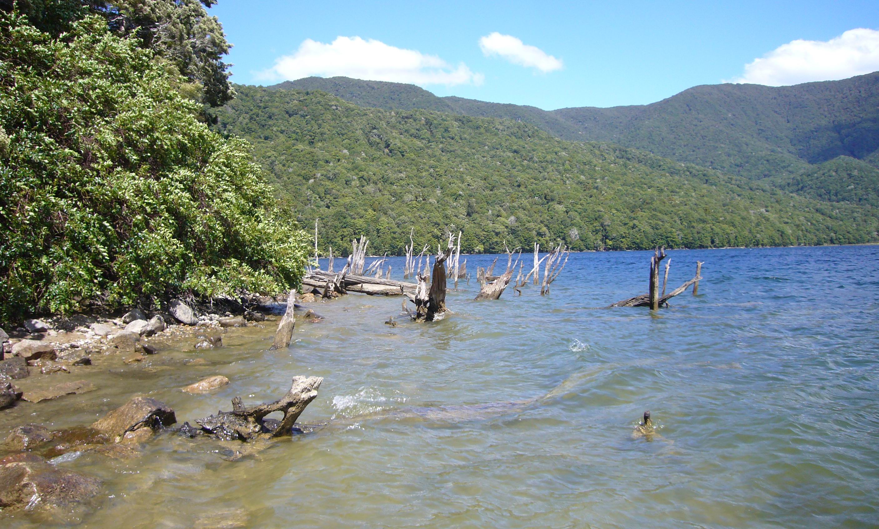 Stumps from drowned trees at the north eastern end of Lake Monowai.